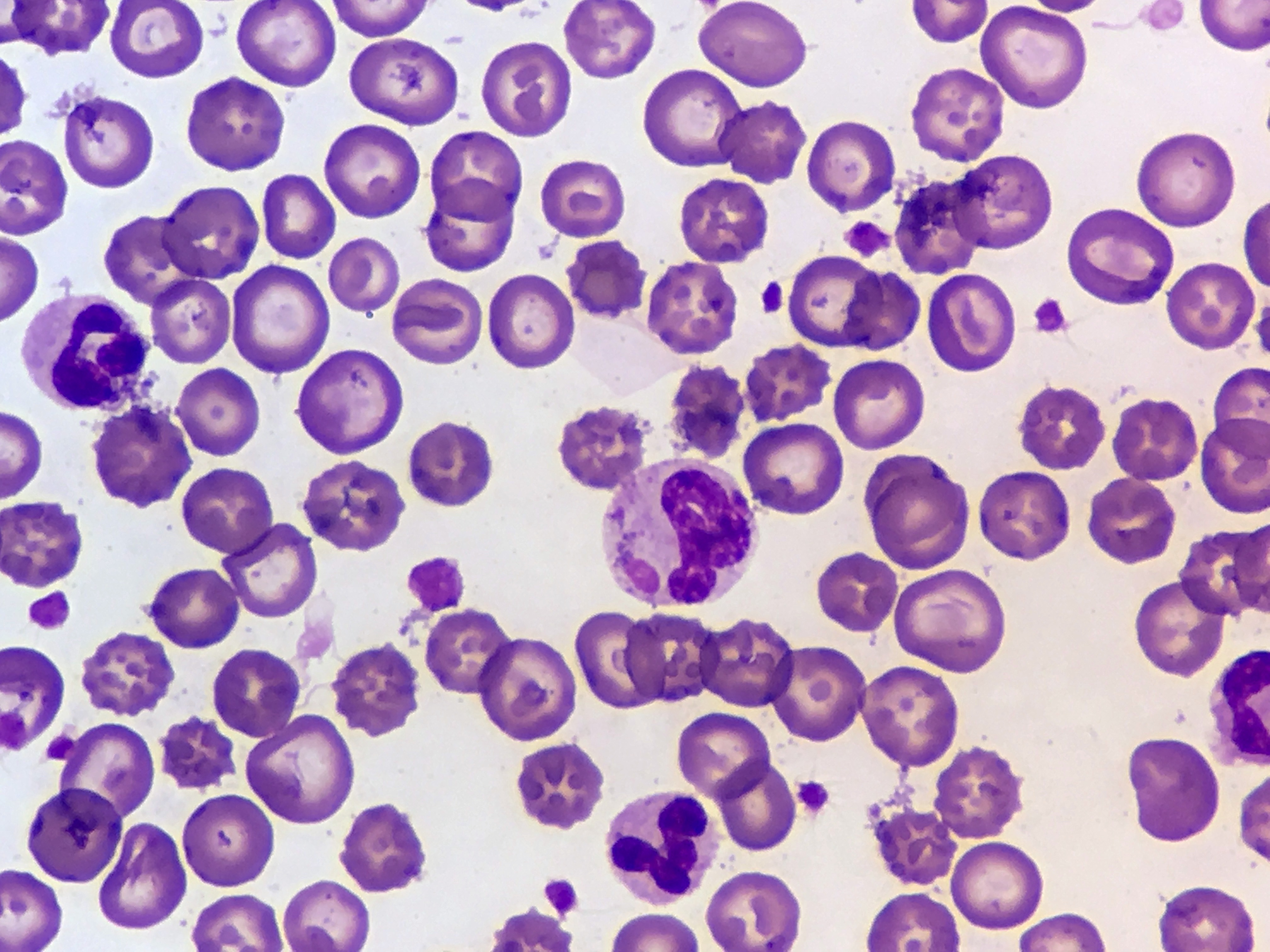 Canine Distemper virus cytoplasmic inclusion body within a neutrophil (blood smear, Wright's Stain). This was found on the blood smear of a 1-month-old, female, mixed breed puppy that presented with signs consistent with upper respiratory disease and conjunctivitis. Diagnostics revealed that the dog had leukocytosis (23,200 WBCs/ul), anemia (PCV 22.2%), and hypoproteinemia (total protein 5.4 g/dl).